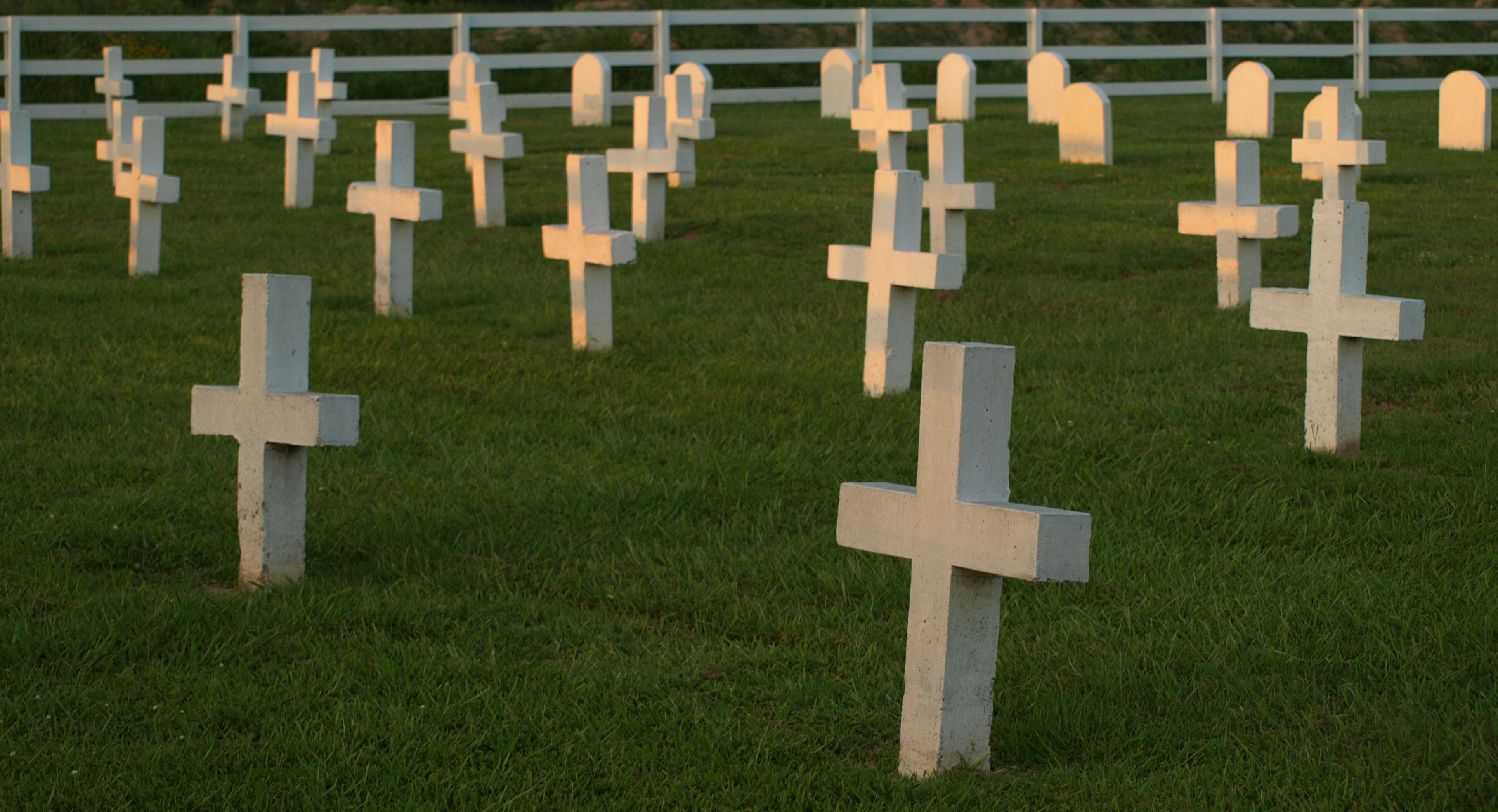 Point Lookout II - This is the "new cemetery", the old one was filled up about 12 years ago. Taken on prison grounds, Angola, LA. Only prisoners are buried here, the ones that no one claims.